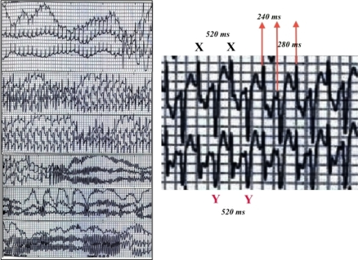 Abnormal heart rhythms in a case of CPVT. The patient, a 13 year old girl, presented with a history of fainting during exercise.